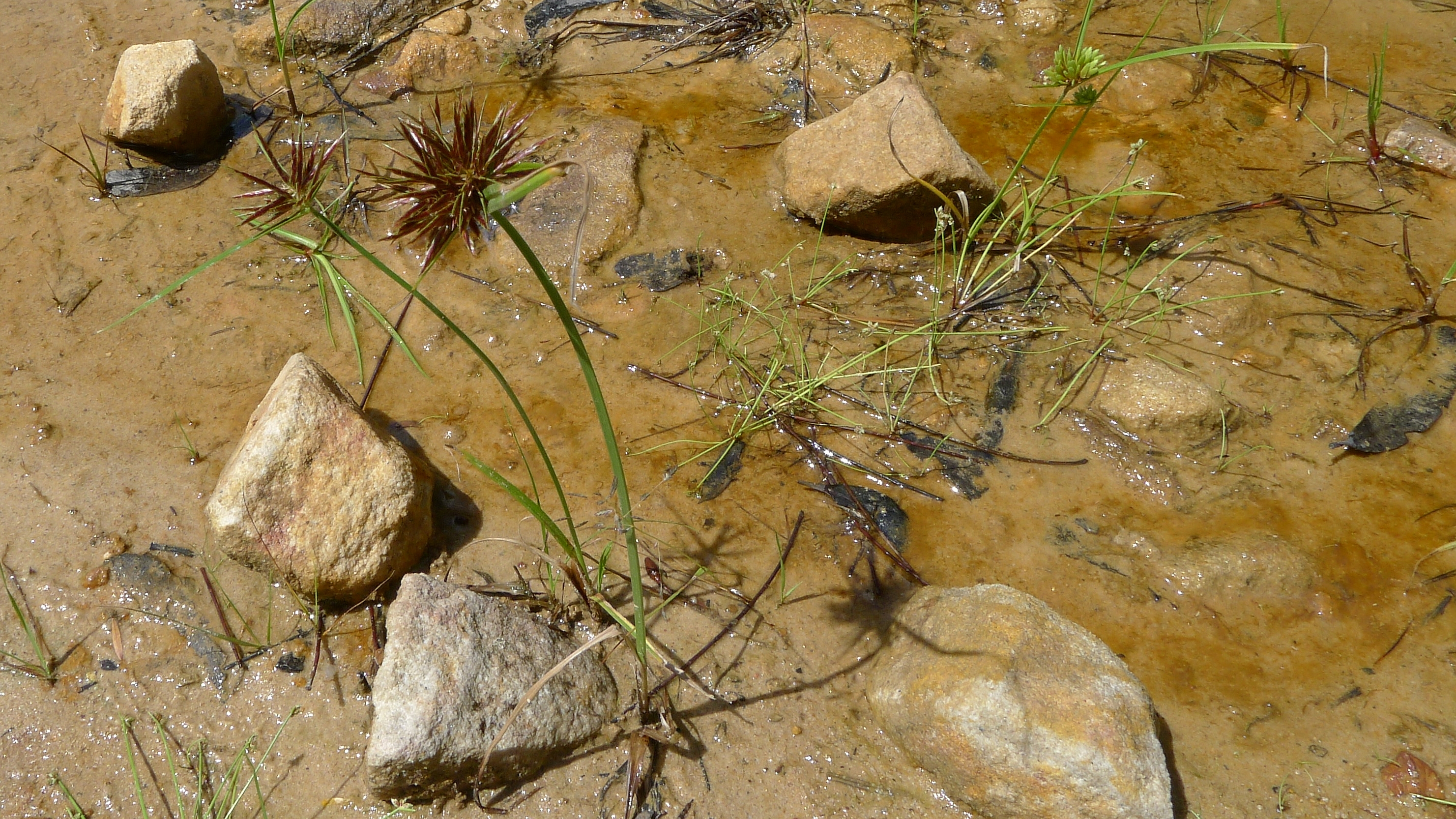 Cyperus congestus. Royal National Park, NSW Australia, January 2012.